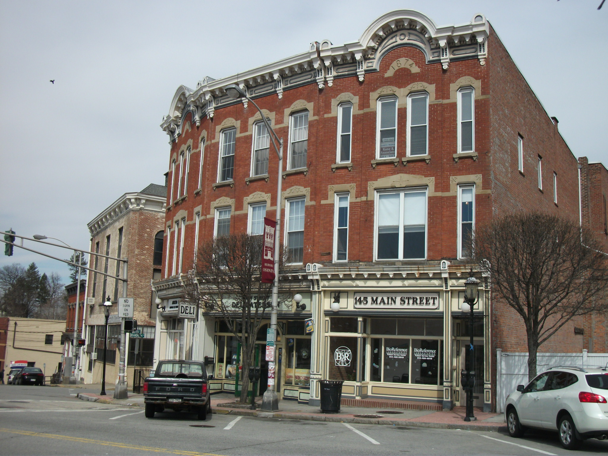 Ossining, New York